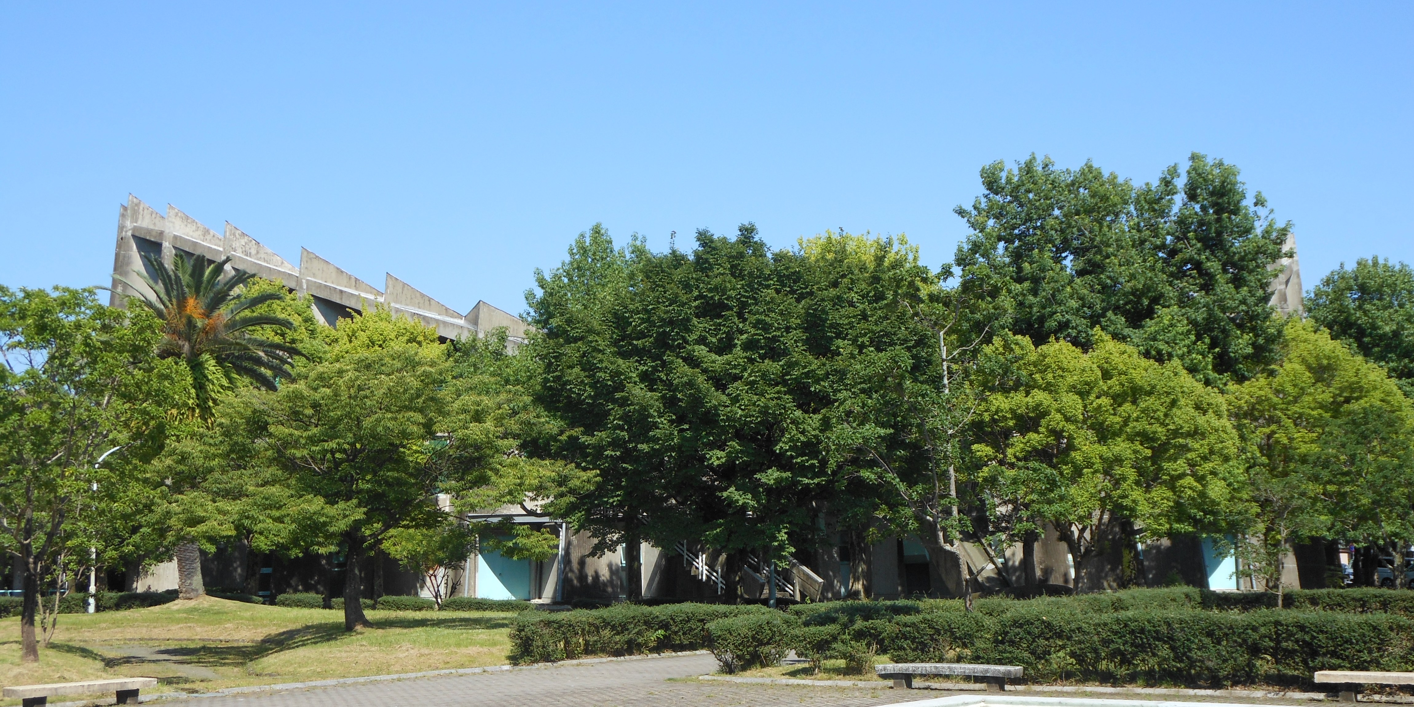 Ichimura Memorial Gymnasium(Ichimura Kinen Taiikukan), in Saga city, Saga prefecture, Japan.